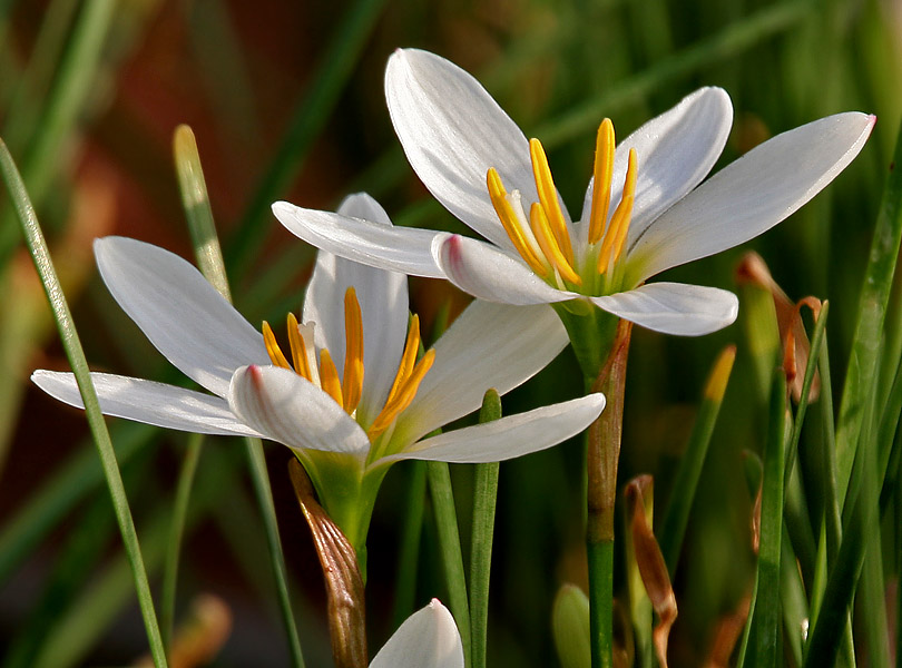 Fairy Lily, White Rain Lily, August rain lily, White zephyr lily, Peruvian swamp-lily, Zephyr flower, or Autumn zephyr lily Zephyranthes candida in Hyderabad, India.